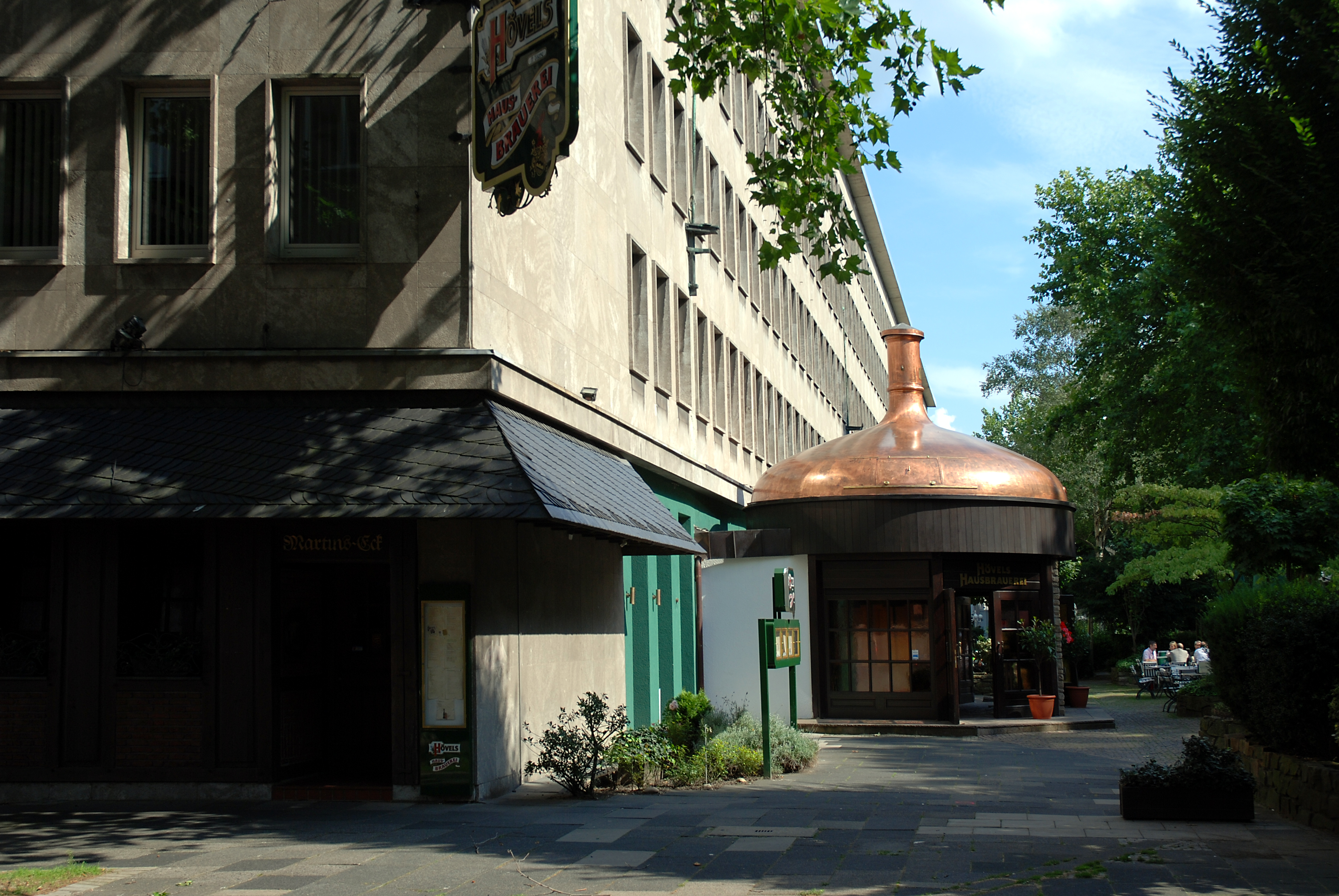 Dortmund, Germany, Hövels Hausbräu, former Thier-brewery